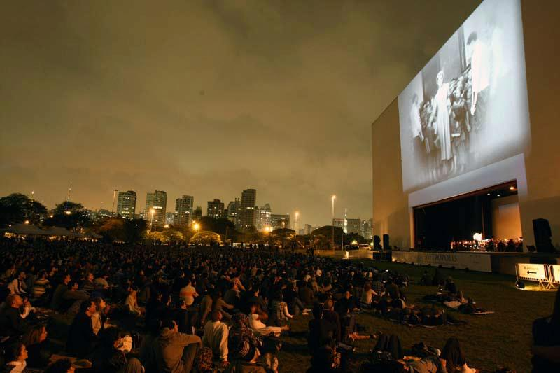 An outdoor screening of Metropolis during the 2010 São Paulo International Film Festival.